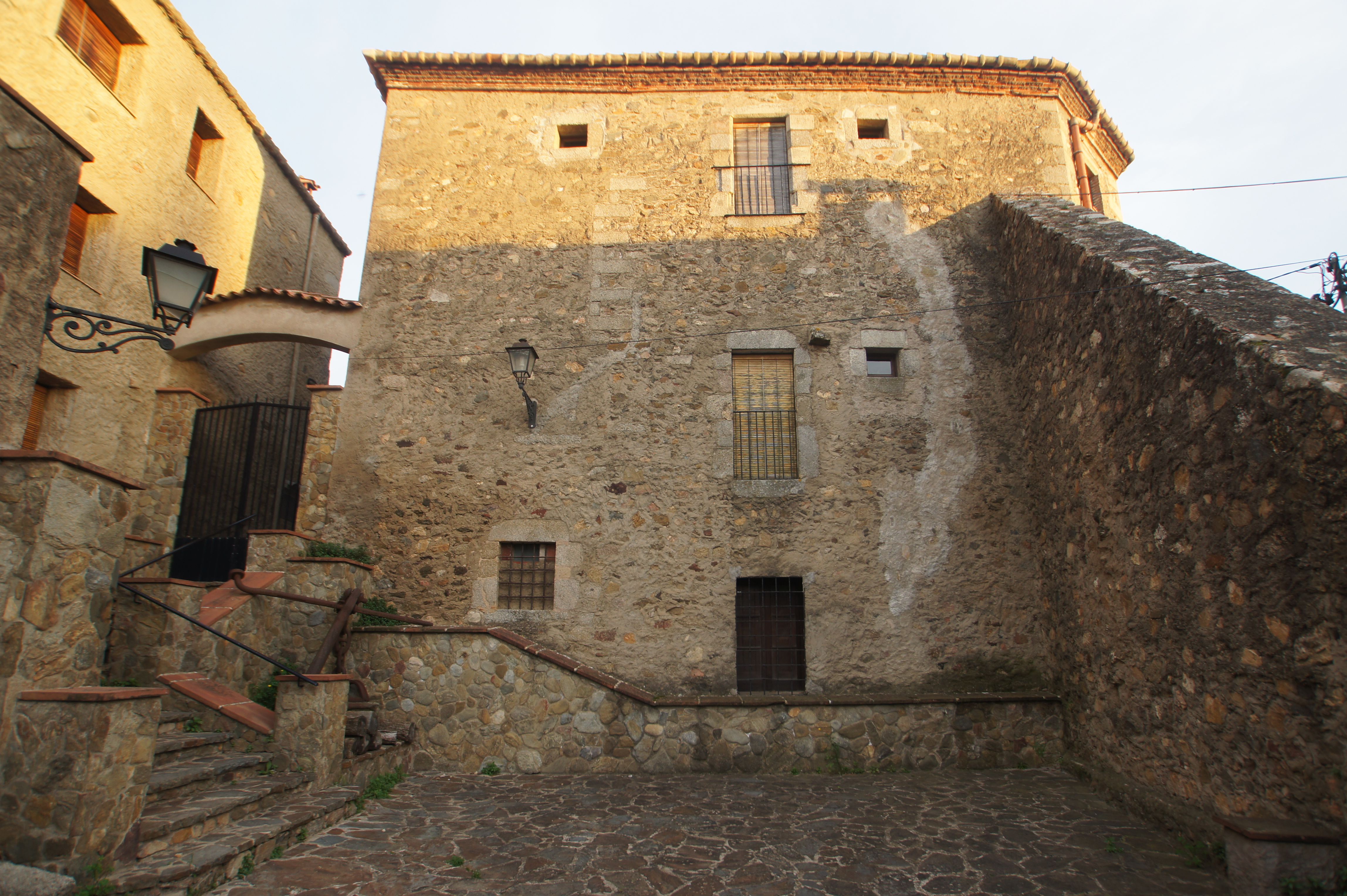 Calonge, Catalonia: Can Xifró: Western front